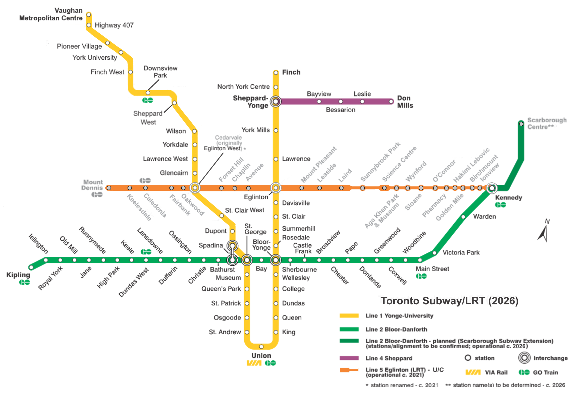 TTC subway/RT map (as of 2026); based on map at Modified from self-made map